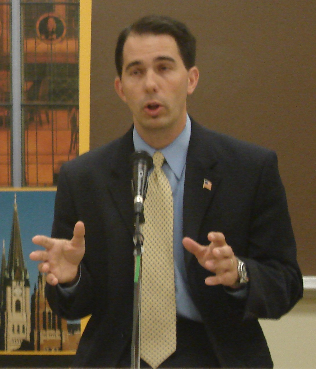 Scott Walker in 2007 at Marquette University as part of "On the Issues with Mike Gousha"